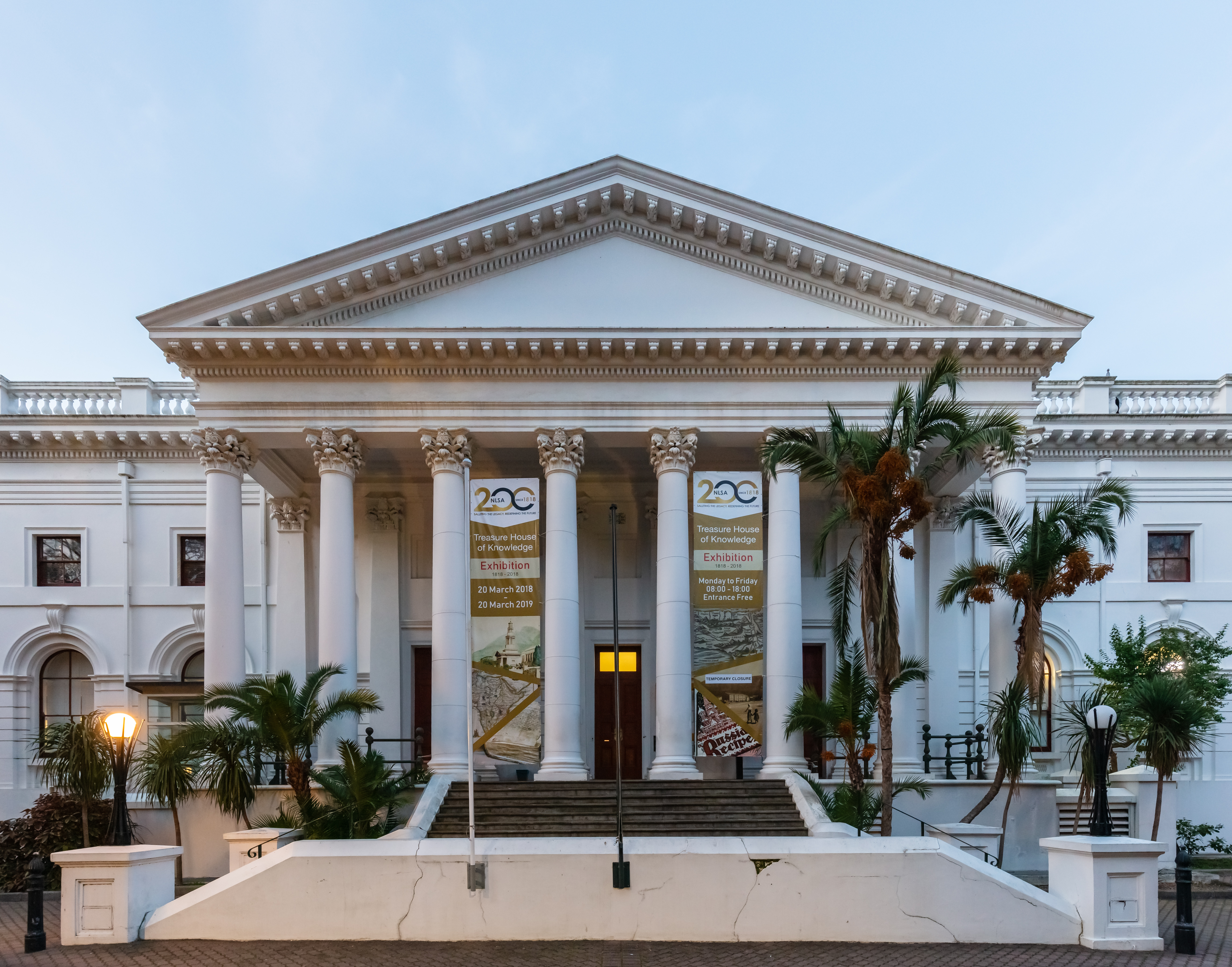 National Library, Wikimania, Cape Town, South Africa